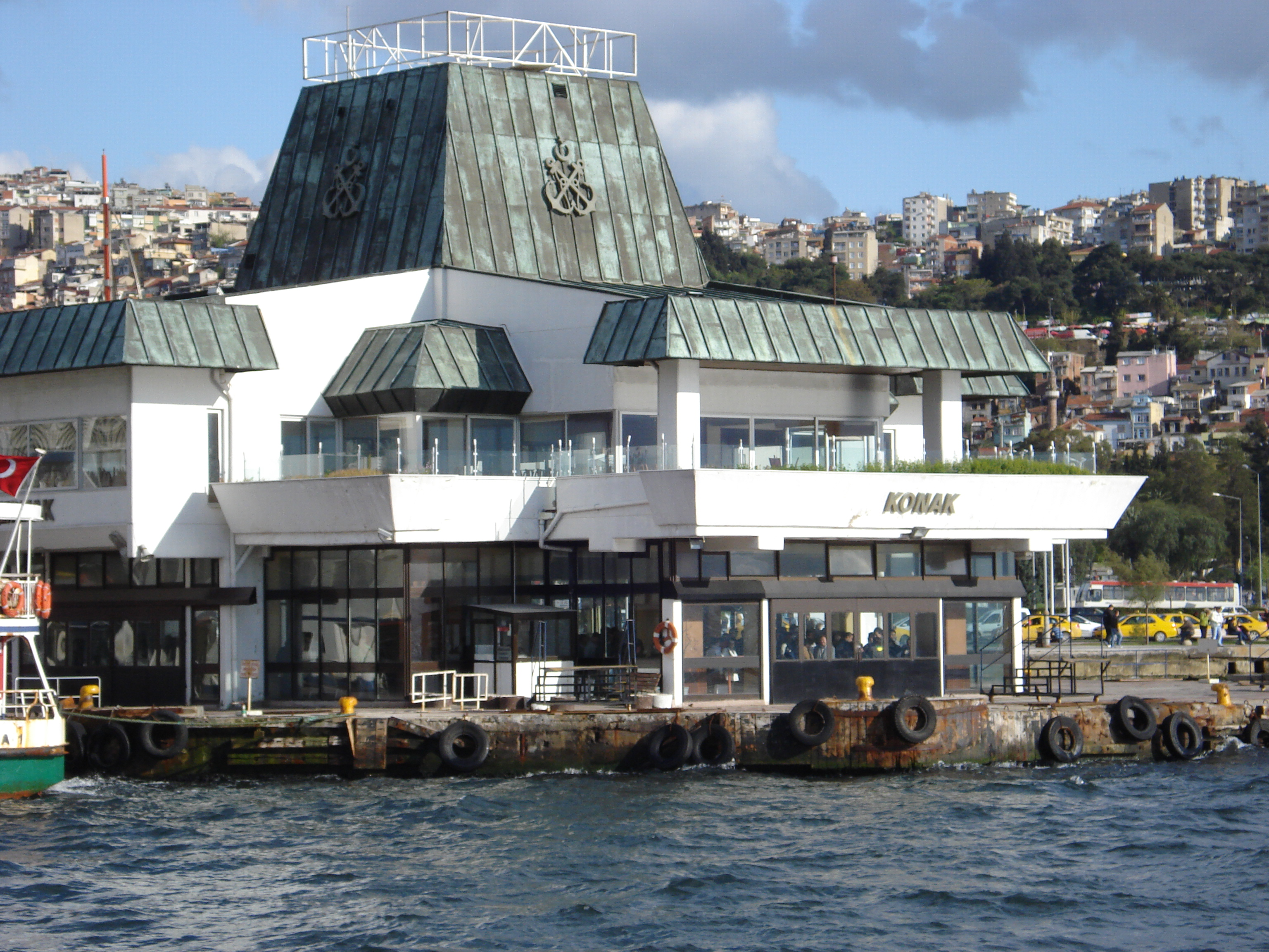 Konak Port in Konak, İzmir.